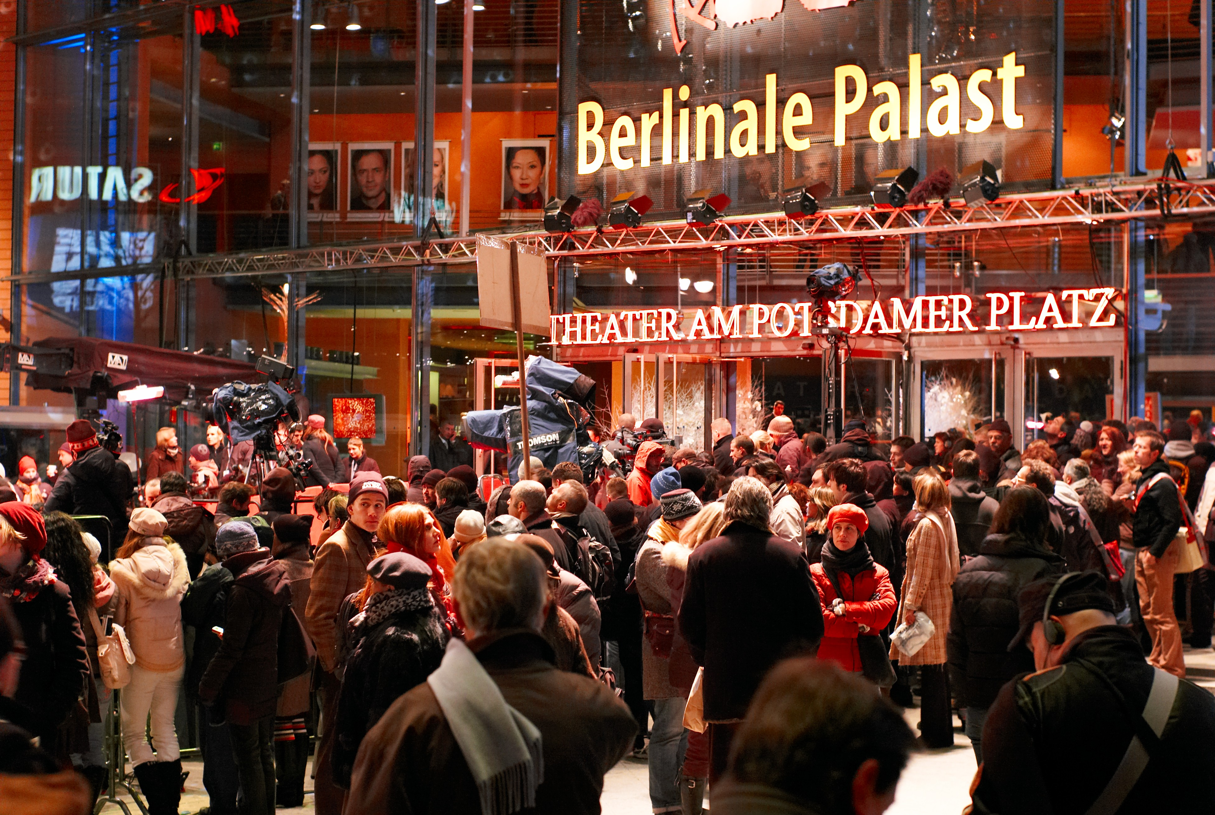 The Berlinale Palast during the Berlin Film Festival in 2007